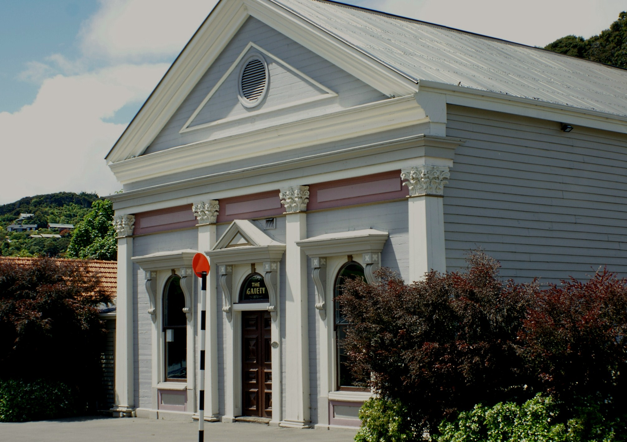 The Gaiety Hall is situated in Rue Jolie, Akaroa. The façade has Italianate/Classical detailing usually executed in stone but here entirely of wood. It was built in 1879 by of the Oddfellows Lodge. They had planned from the outset that this large hall would be used not just for their meetings, but also for other community events. Through the years, the building has been the scene of dances, meetings, theatrical performances and movie showings. By the late 20th century it had become dilapidated, but a group of three local women took the venerable building in hand. The Gaiety Trust raised more than $300,000 to renovate the building. Wonderfully restored and brought back to life, it is once again a popular venue for community events. It has a NZHPT Category II listing; registration number 1719.